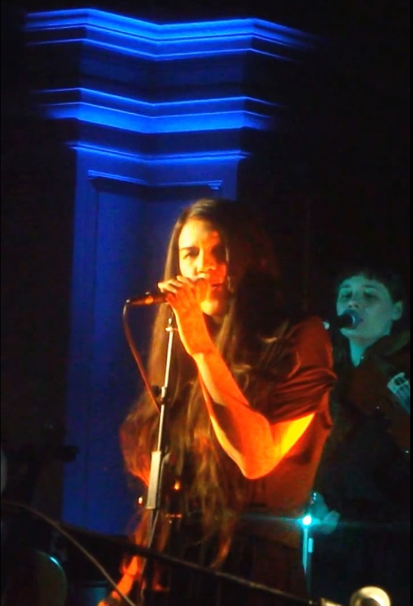 Phildel singing 'Holes in your Coffin' as part of her gig on Friday 6th December 2012 at St Giles in the Field Church, London